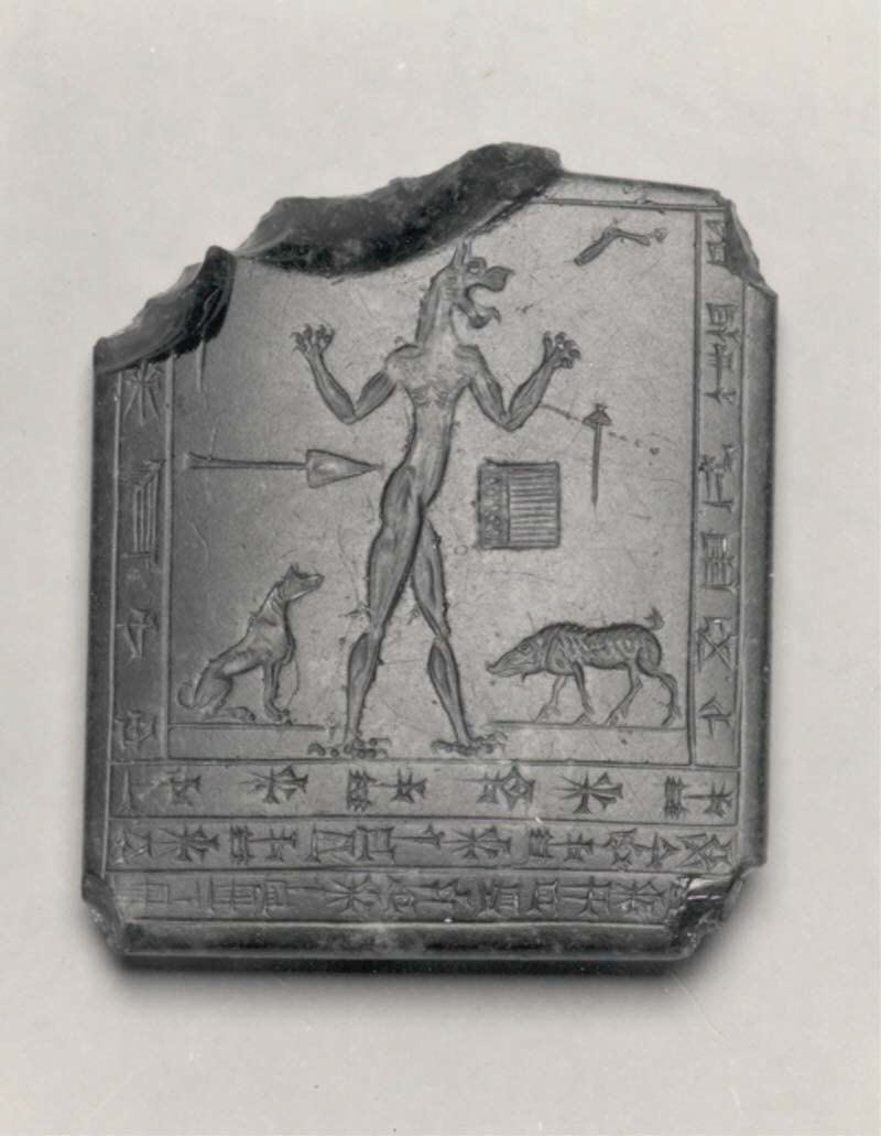 Amulet; Stone-Ornaments-Inscribed